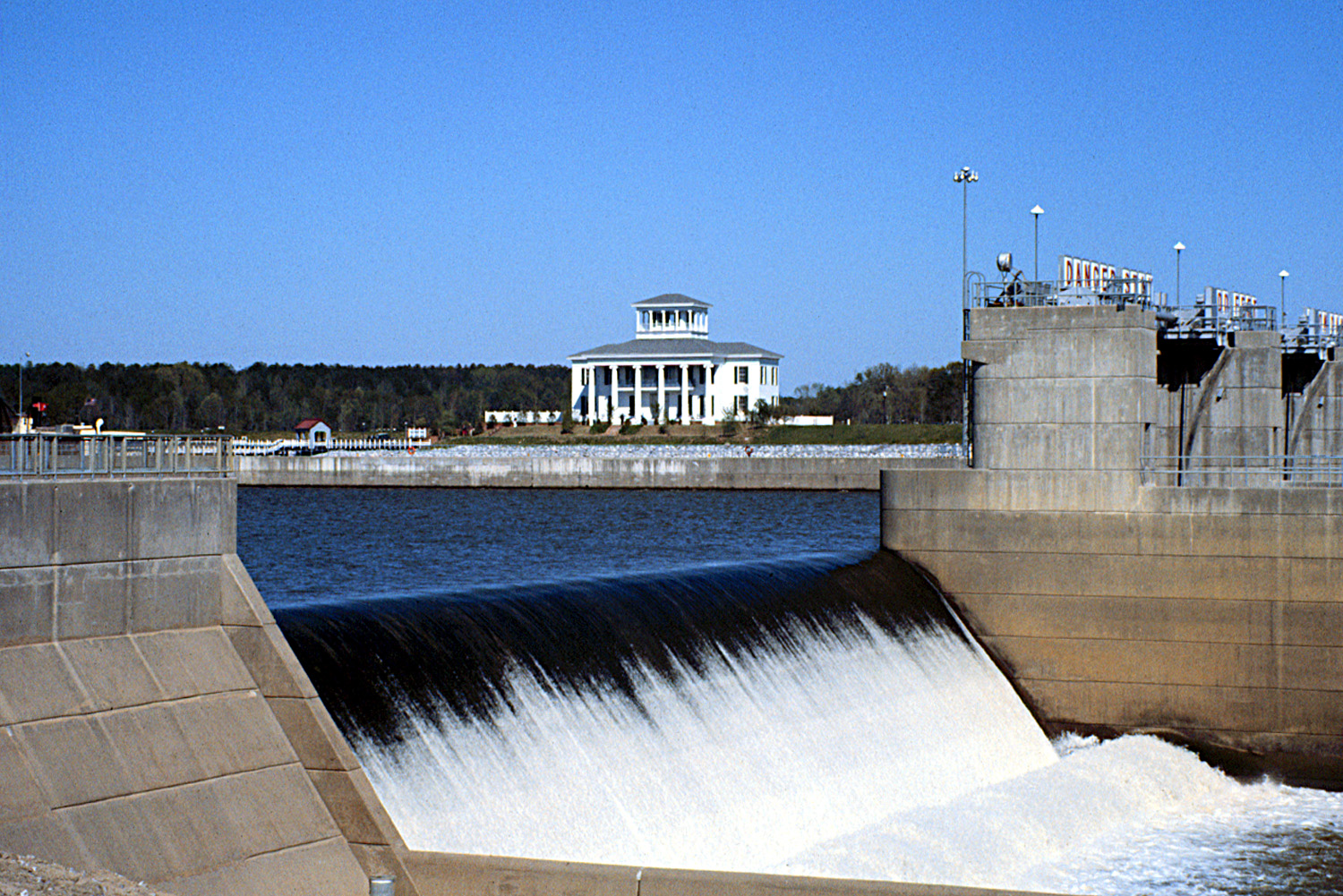 Tom Bevill Lock & Dam on the Tennessee-Tombigbee Waterway, Pickensville, Alabama, USA.